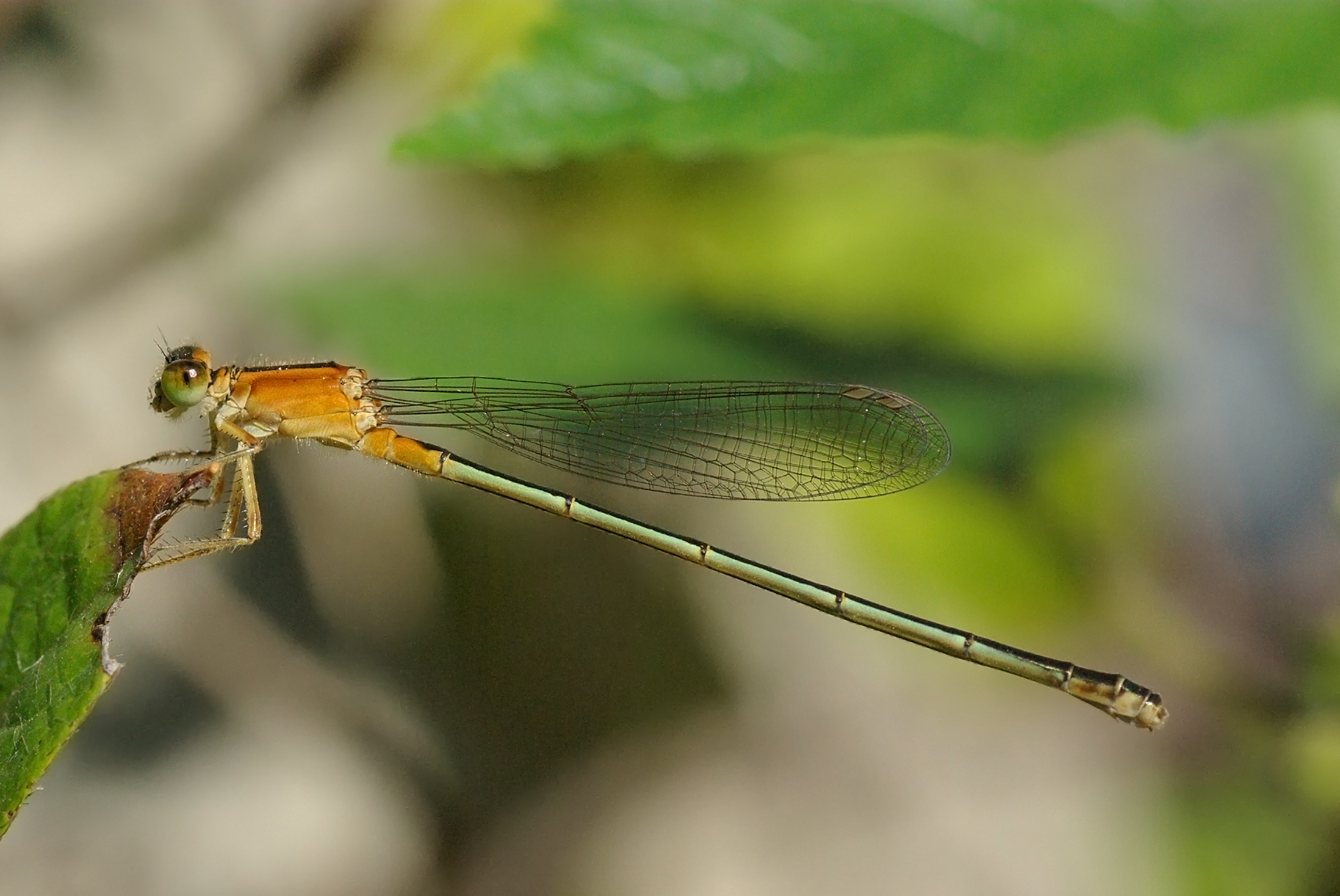 Common Bluetail, a widespread damselfly in Africa, the Middle East, Southern and Eastern Asia.